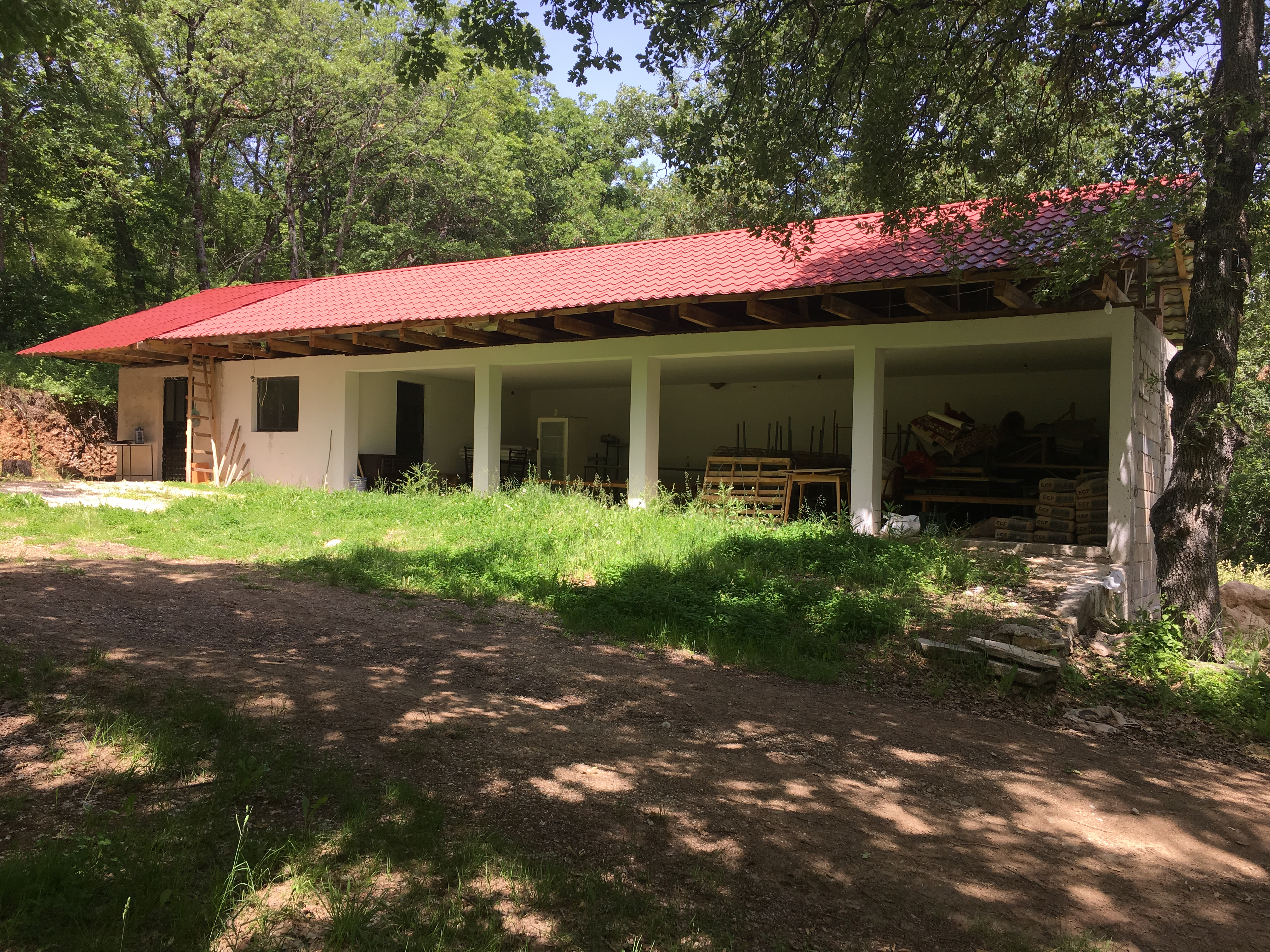 The refectory in the Sveto Todori Monastery